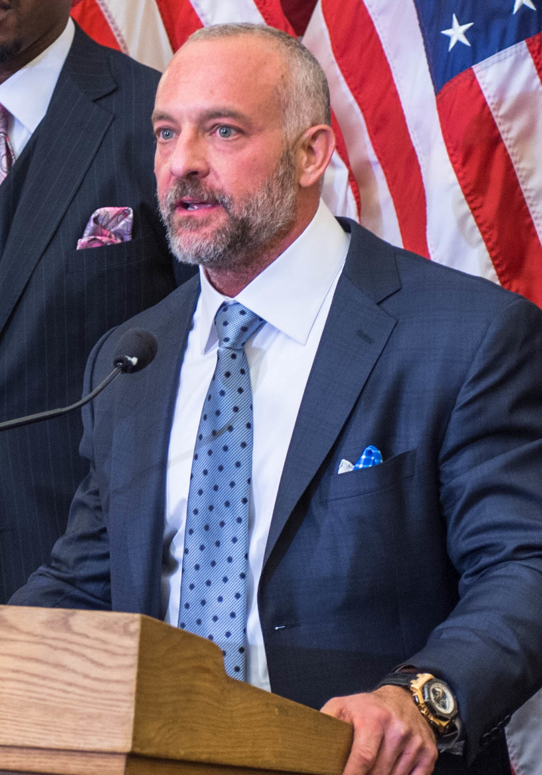 UFC Chairman and CEO Lorenzo Fertitta at the U.S. Capitol in 2014.